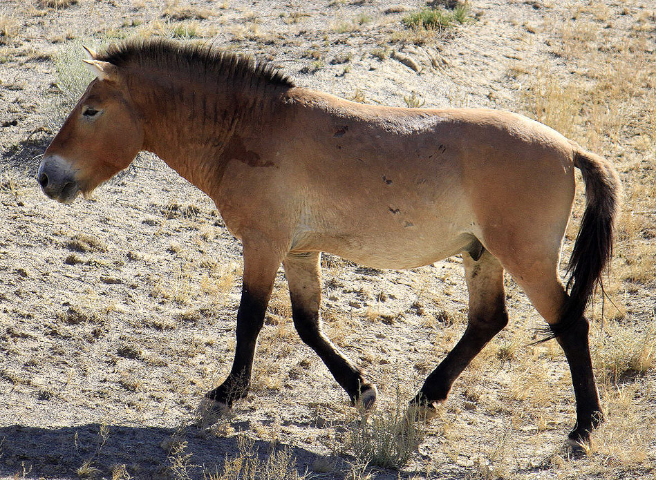 Equus przewalskii in Shinjang